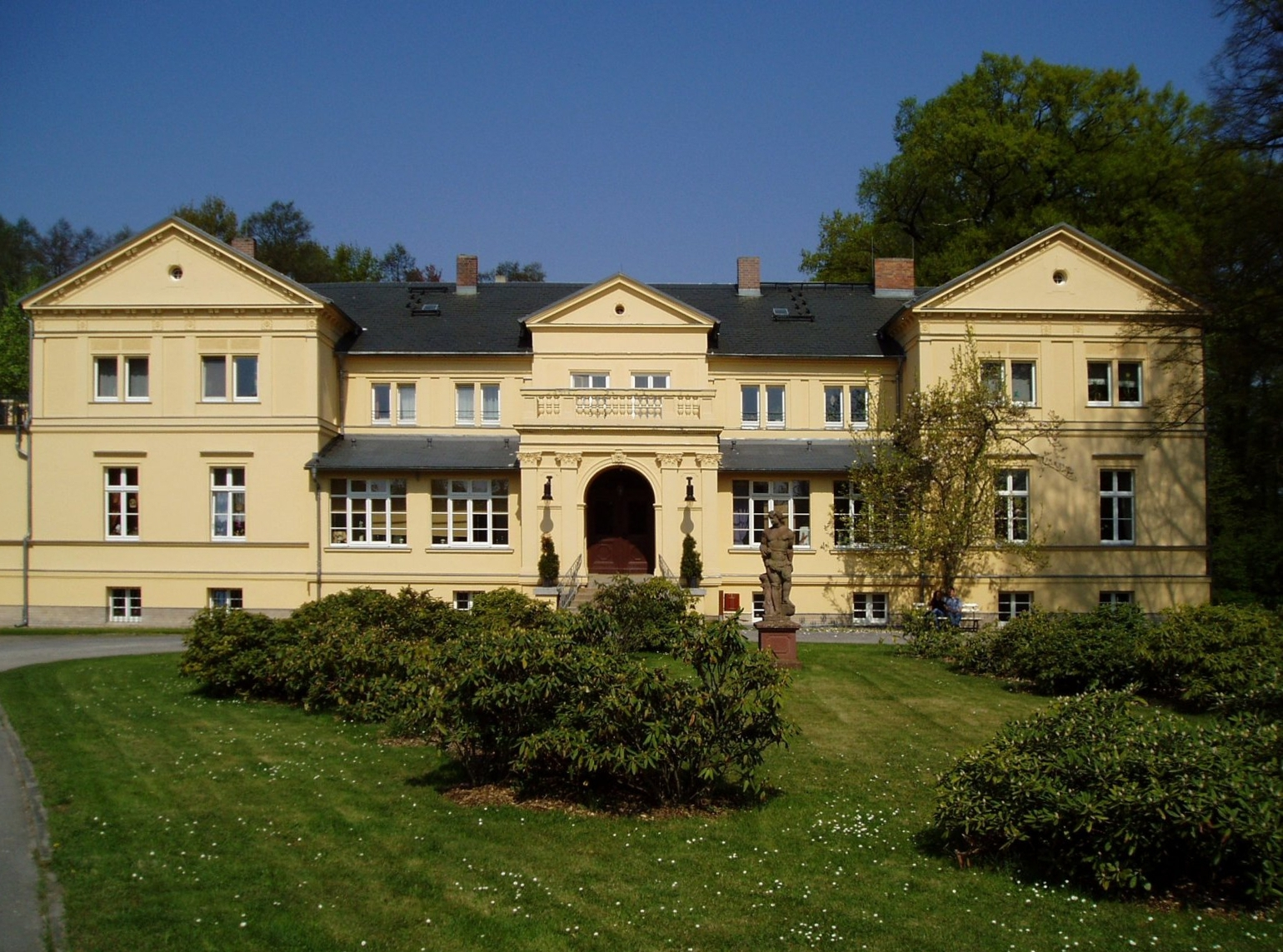 Mansion at Hornow, Lausitz, Germany